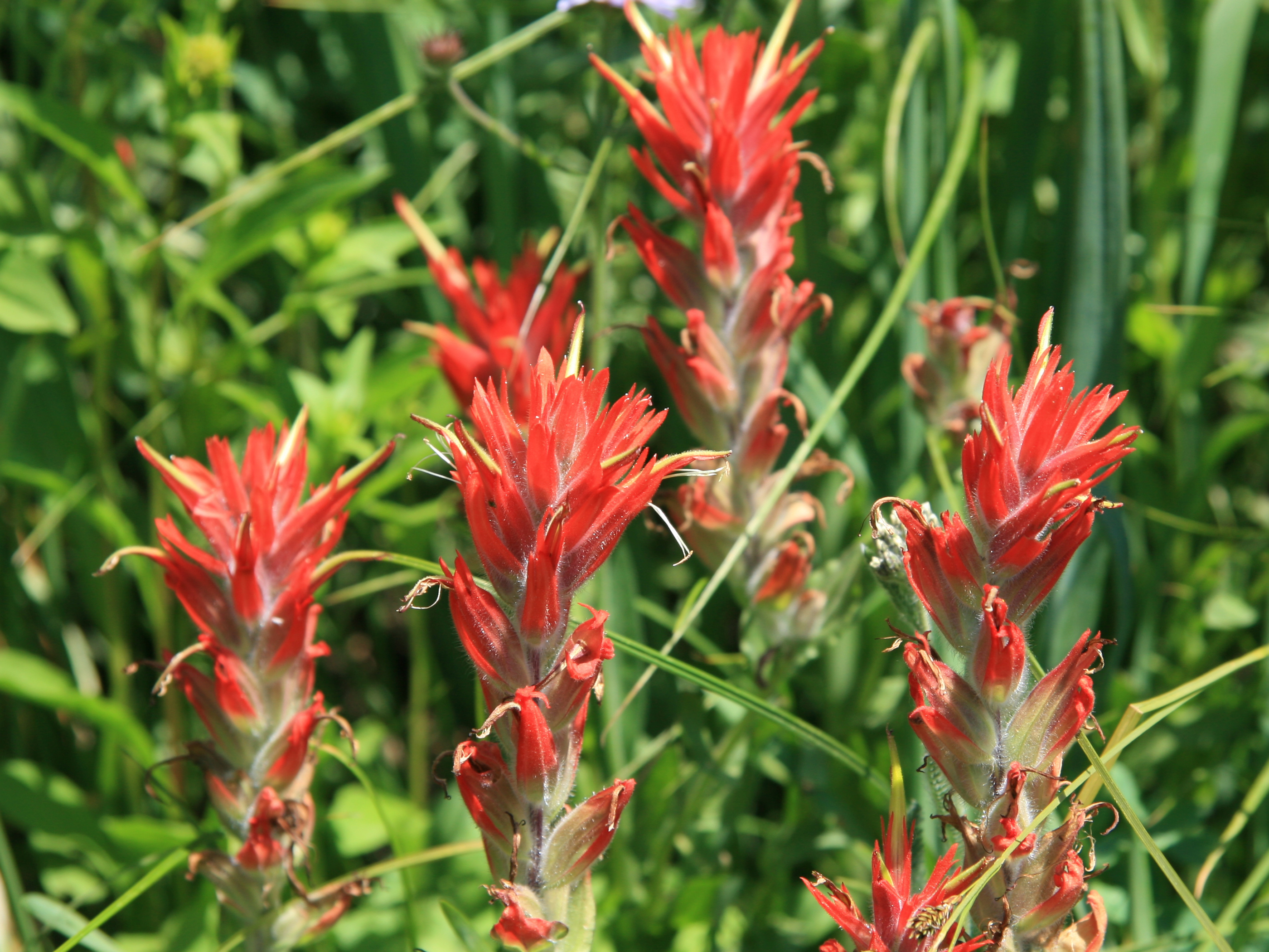 Common red indian paintbrush (Castilleja miniata), closeup, with flowers and stamens protruding from the red bracts. In grass by Upper Rock Creek at 10,350ft, Little Lakes Valley, John Muir Wilderness, Sierra Nevada mountains, California.